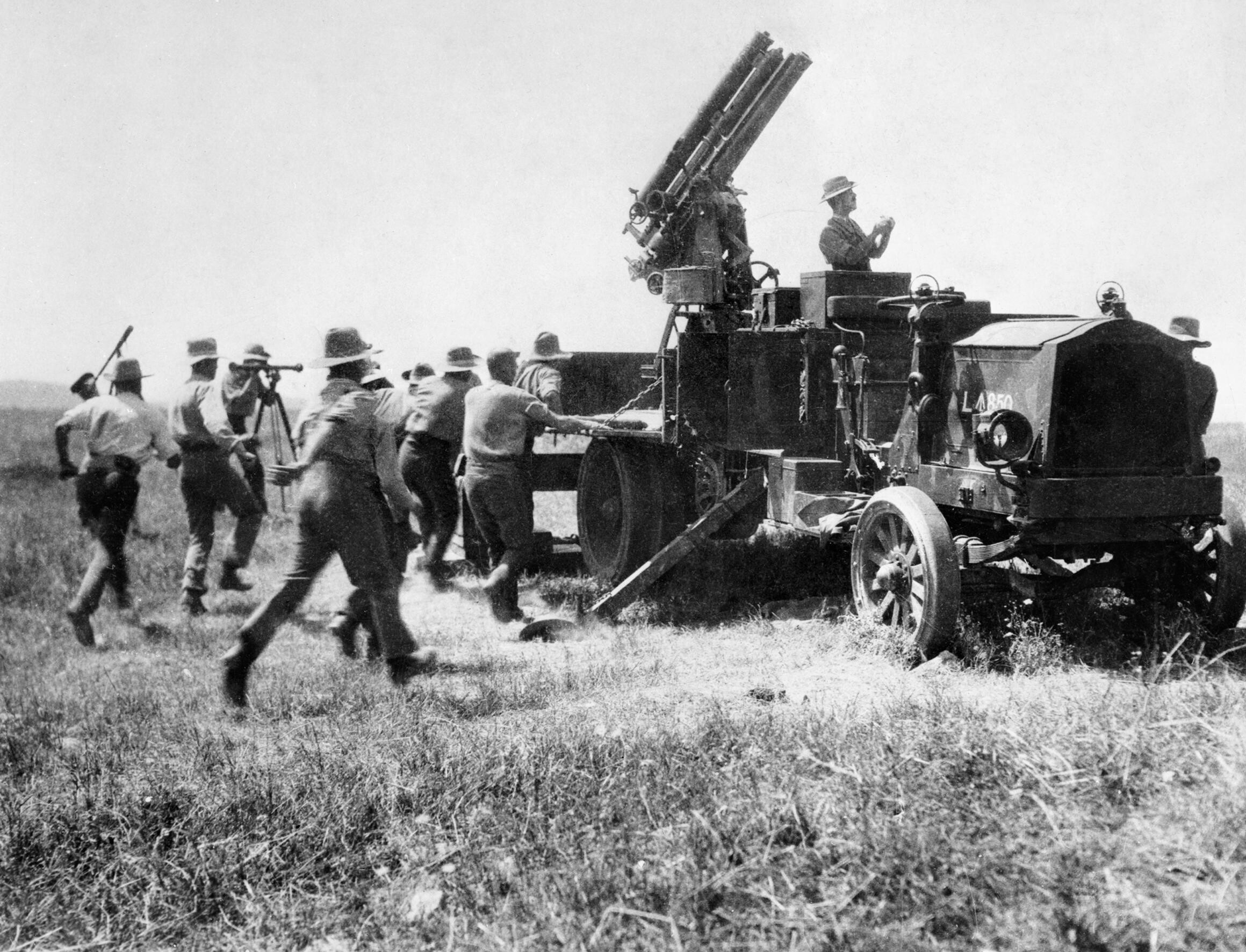 BRITISH FORCES IN THE SALONIKA CAMPAIGN 1915-1918 IWM caption reads : "The crew of a British mobile anti-aircraft gun rush to man their weapon after enemy aircraft are sighted. During the summer of 1916 troops serving with the British Salonika Force were issued with Australian style slouch hats due to their being insifficient sun helmets available. This situation was rectified the following summer and slouch hats were not again issued in Salonika.". Comment : This appears to be a 3 inch "13 pounder 6 cwt" anti-aircraft gun, on Mark I mounting which had an additional recuperator mounted above, to facilitate the barrel's run out at high angle. The gun is mounted on on a Packard Series D lorry. NOTE : This version of the photograph has brightness and contrast artificially increased to highlight detail.